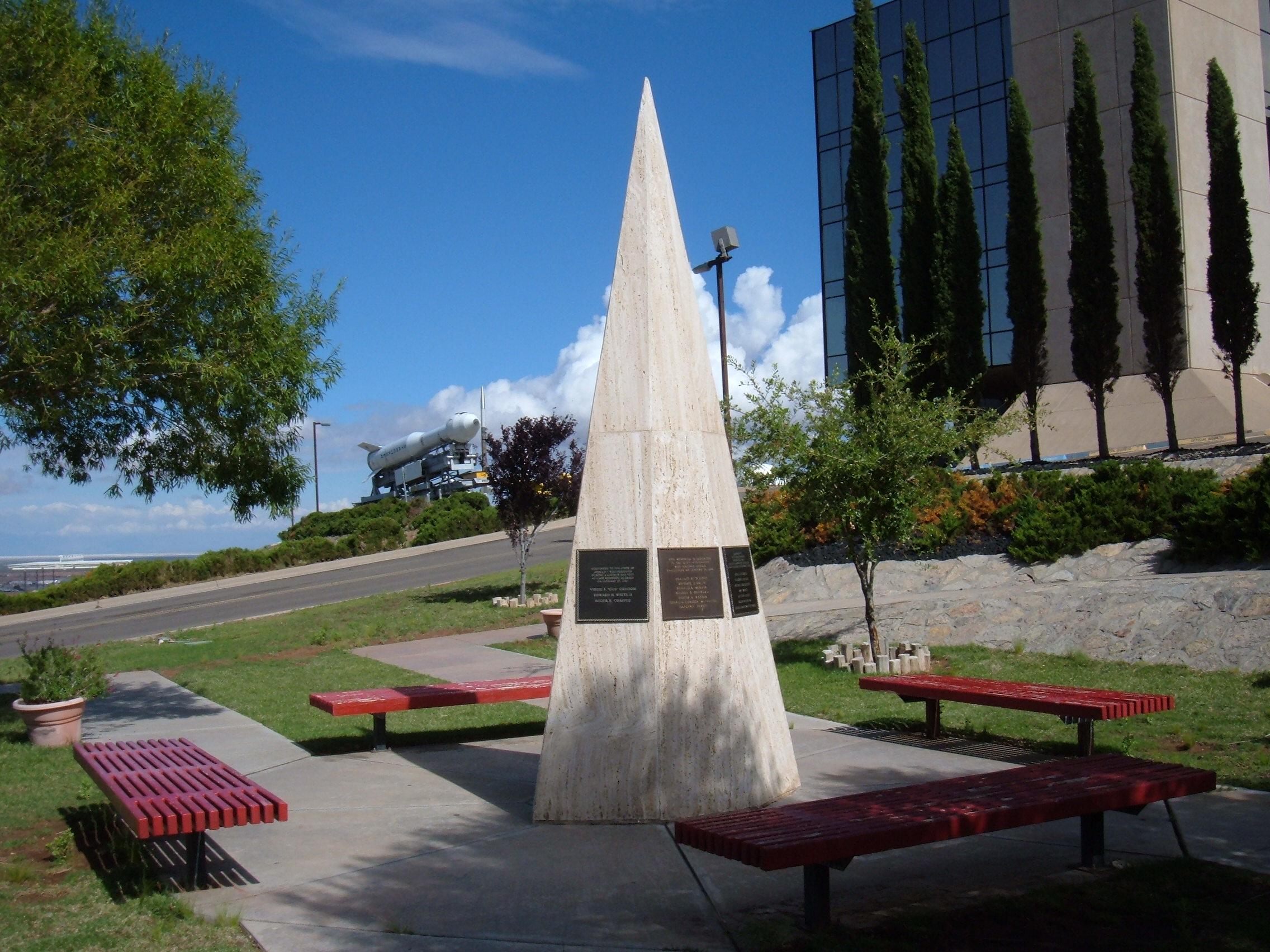 Memorial garden and monument to the crews of Apollo 1, STS-51-L (Challenger), and STS-107 (Columbia). Located at the New Mexico Museum of Space History in Alamogordo, New Mexico; museum main building is at upper right.